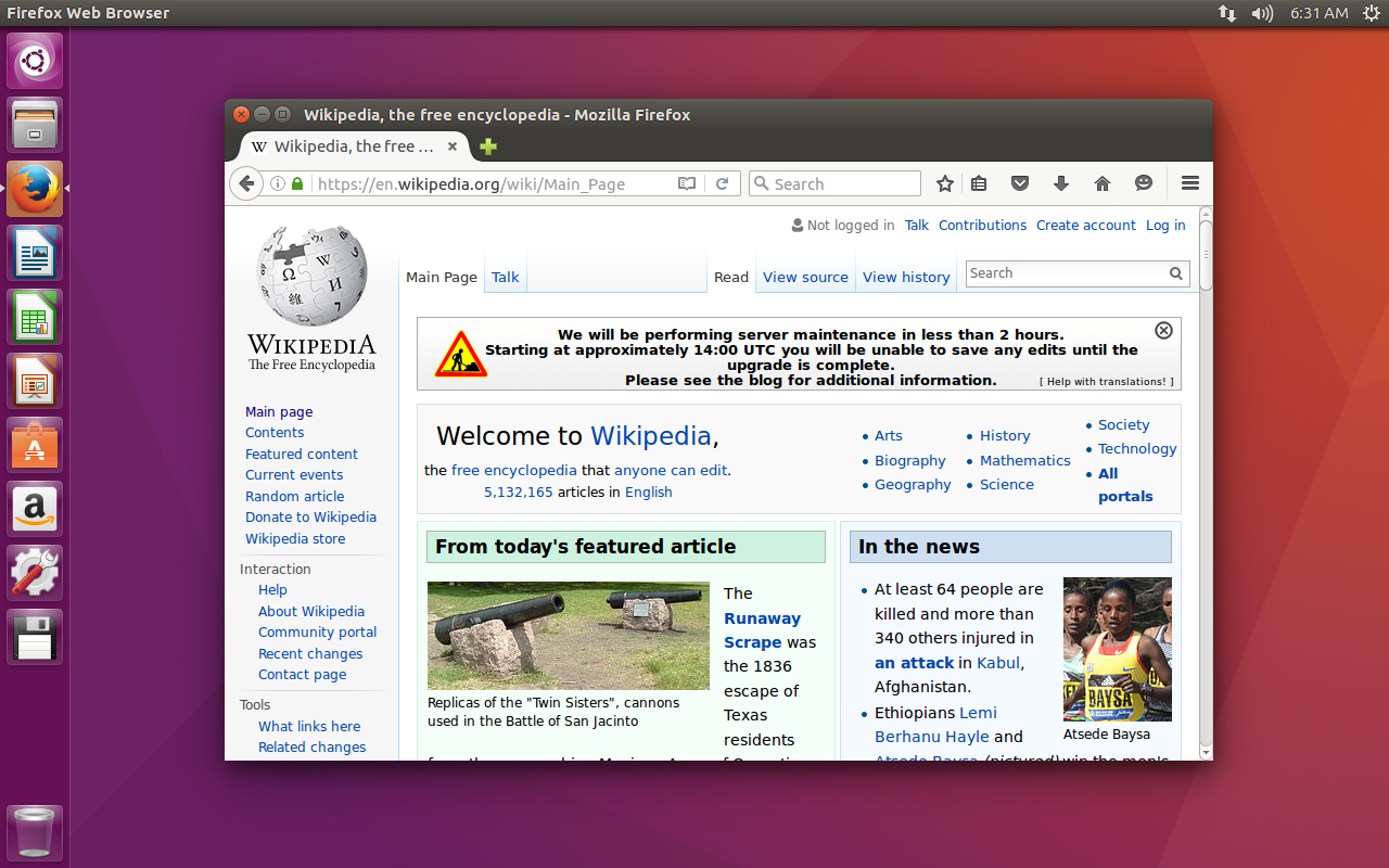 Ubuntu 16.04 running Firefox